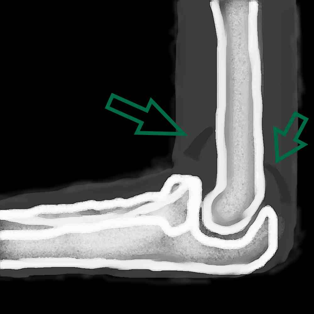 Sail sign of elbow efusion, own digital drawing.